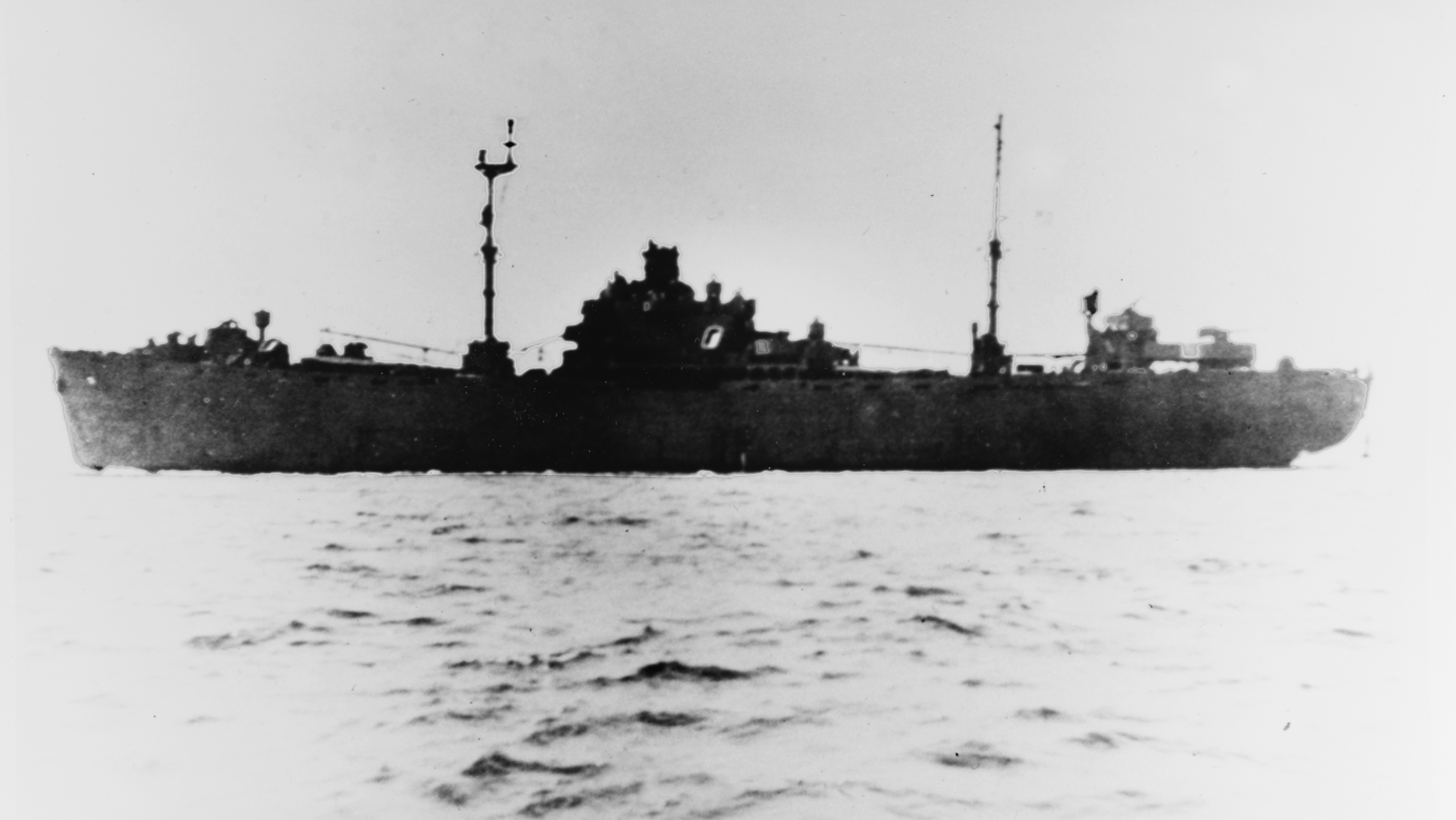 The U.S. Navy repair ship USS Xanthus (AR-19), circa in 1945.